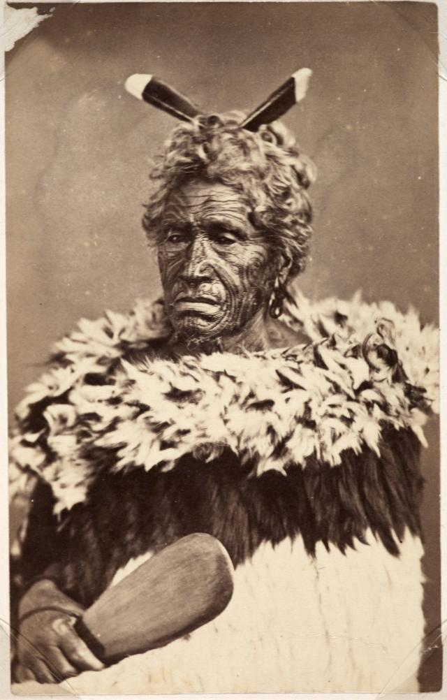 Half-length portrait of an elderly Maori man with two feathers in his short grey hair. He is wearing a dog skin cloak (kahu kuri), and holding a mere or patu (short edged weapon).